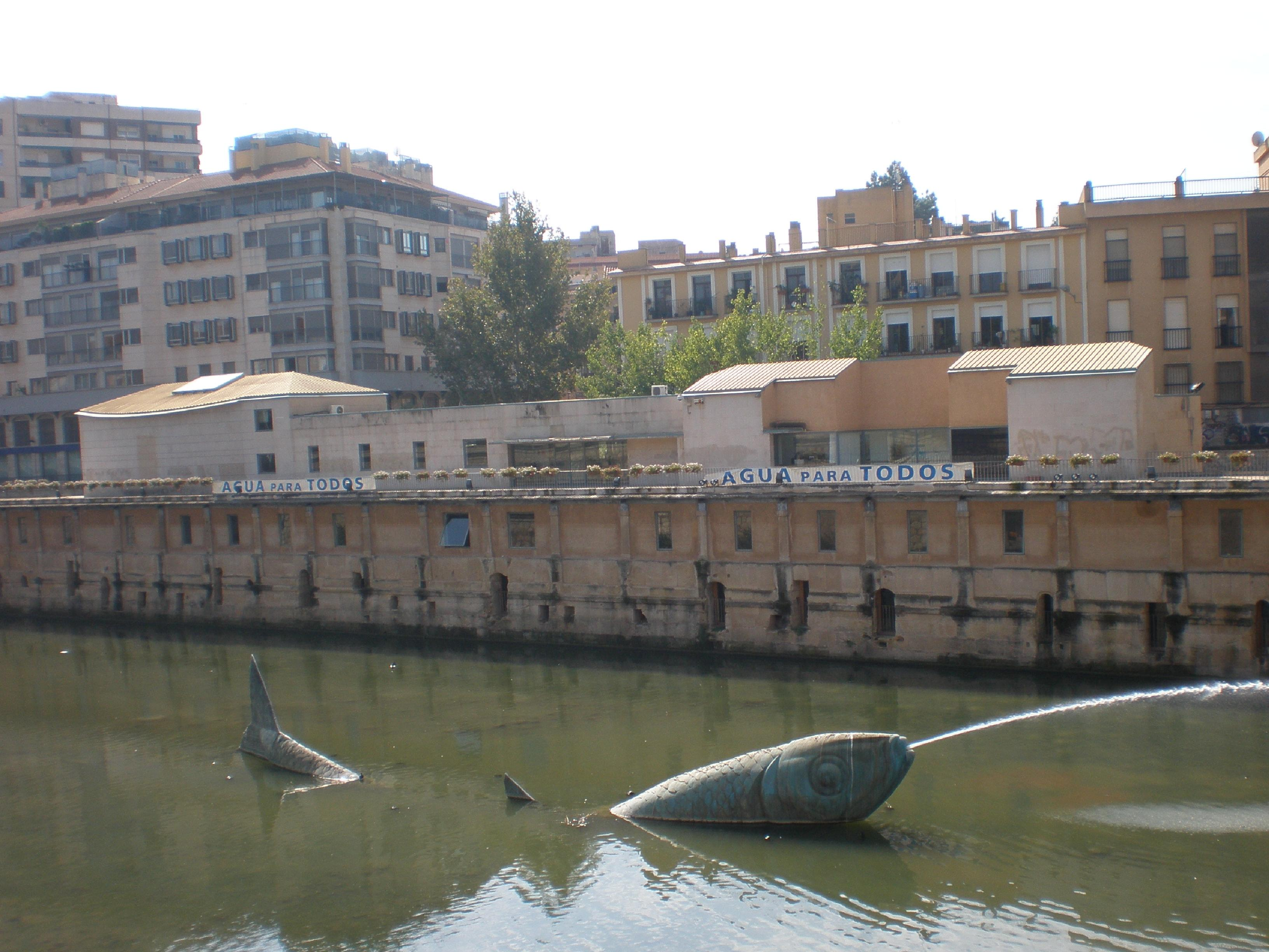 The stranded sardine on the river Segura and Los Molinos del Río hydraulic museum, Murcia (Spain)